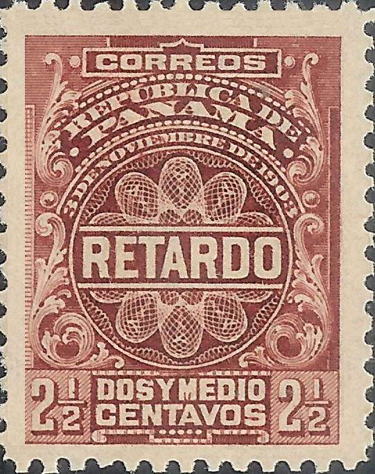 PANAMA - 1903 - too late fee